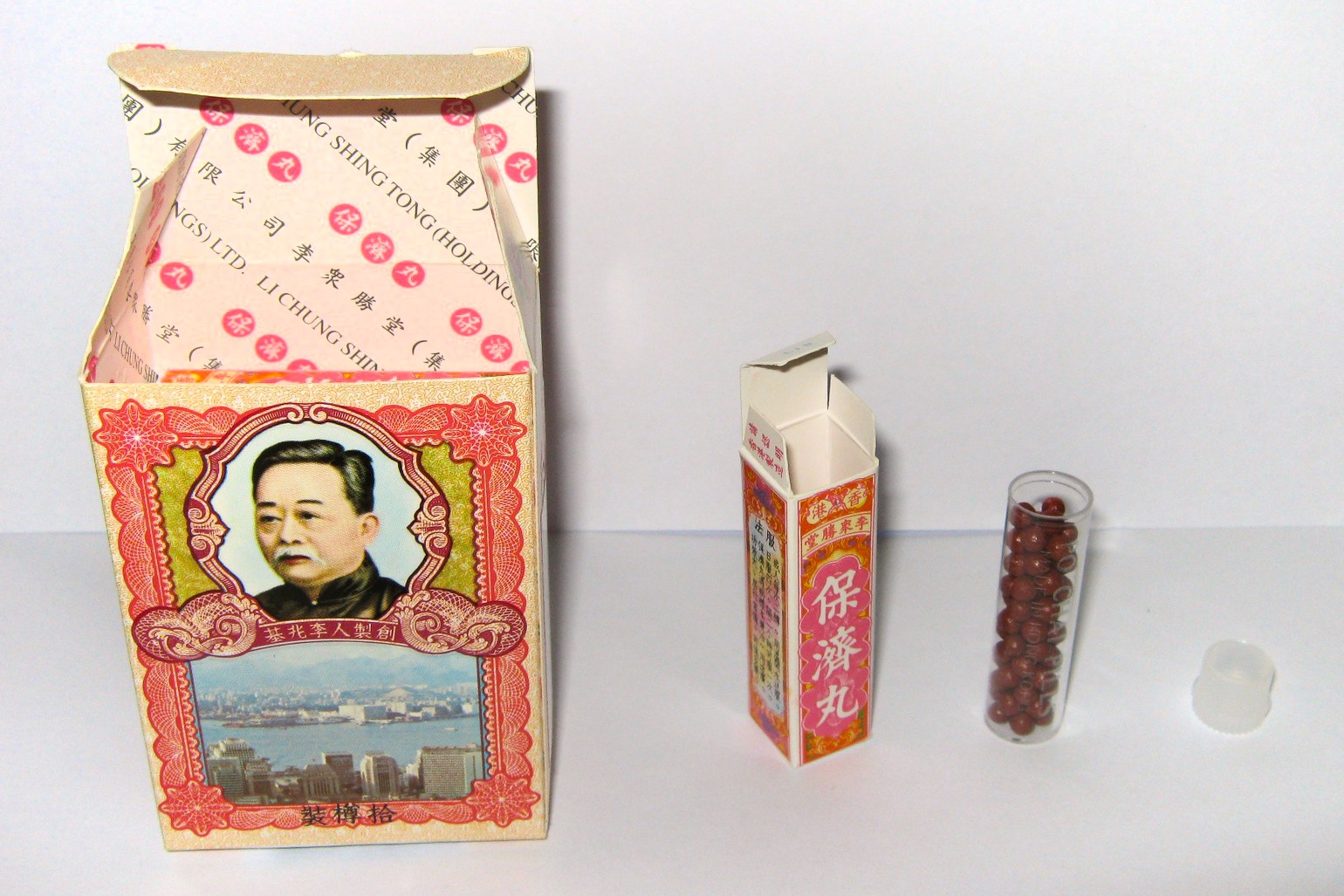 Po Chai Pills and containers.